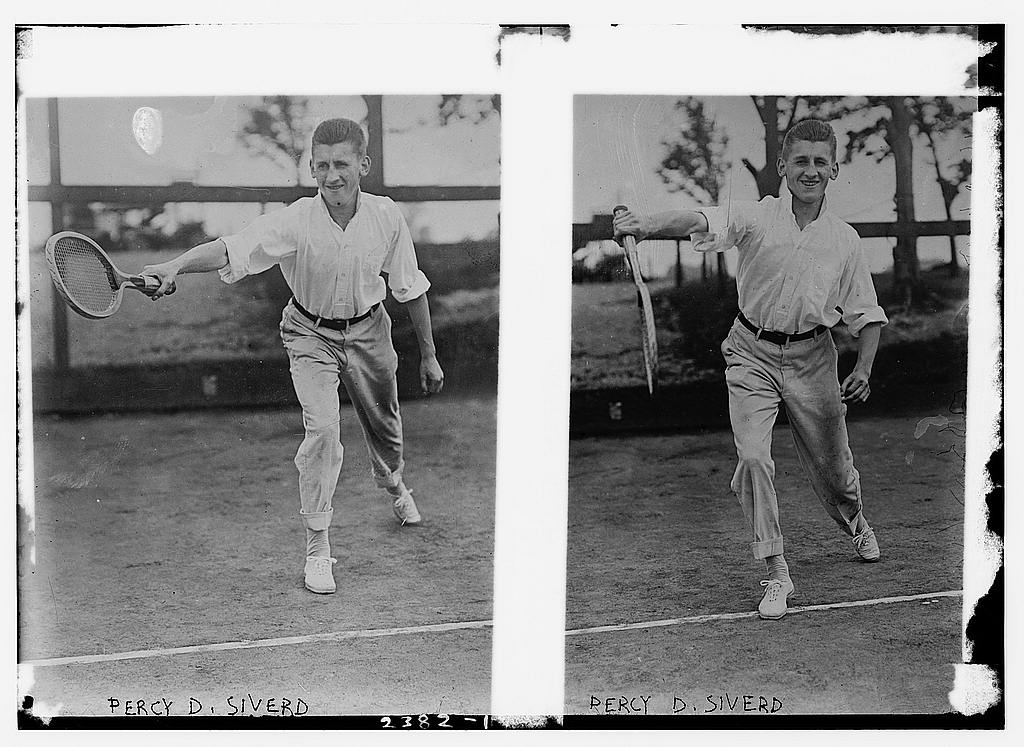 [between 1910 and 1915] 1 negative : glass ; 5 x 7 in. or smaller. Notes: Title from data provided by the Bain News Service on the negative. Forms part of: George Grantham Bain Collection (Library of Congress). Subjects: Tennis Format: Glass negatives. Percy Dwight Siverd circa 1911-1912 Repository: Library of Congress, Prints and Photographs Division, Washington, D.C. 20540 USA, General information about the Bain Collection is available at Persistent URL: Call Number: LC-B2- 2382-1